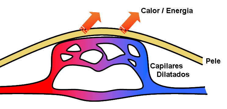 I made this scheme myself, and hereby release it into Public Domain. It represents vasodilation.